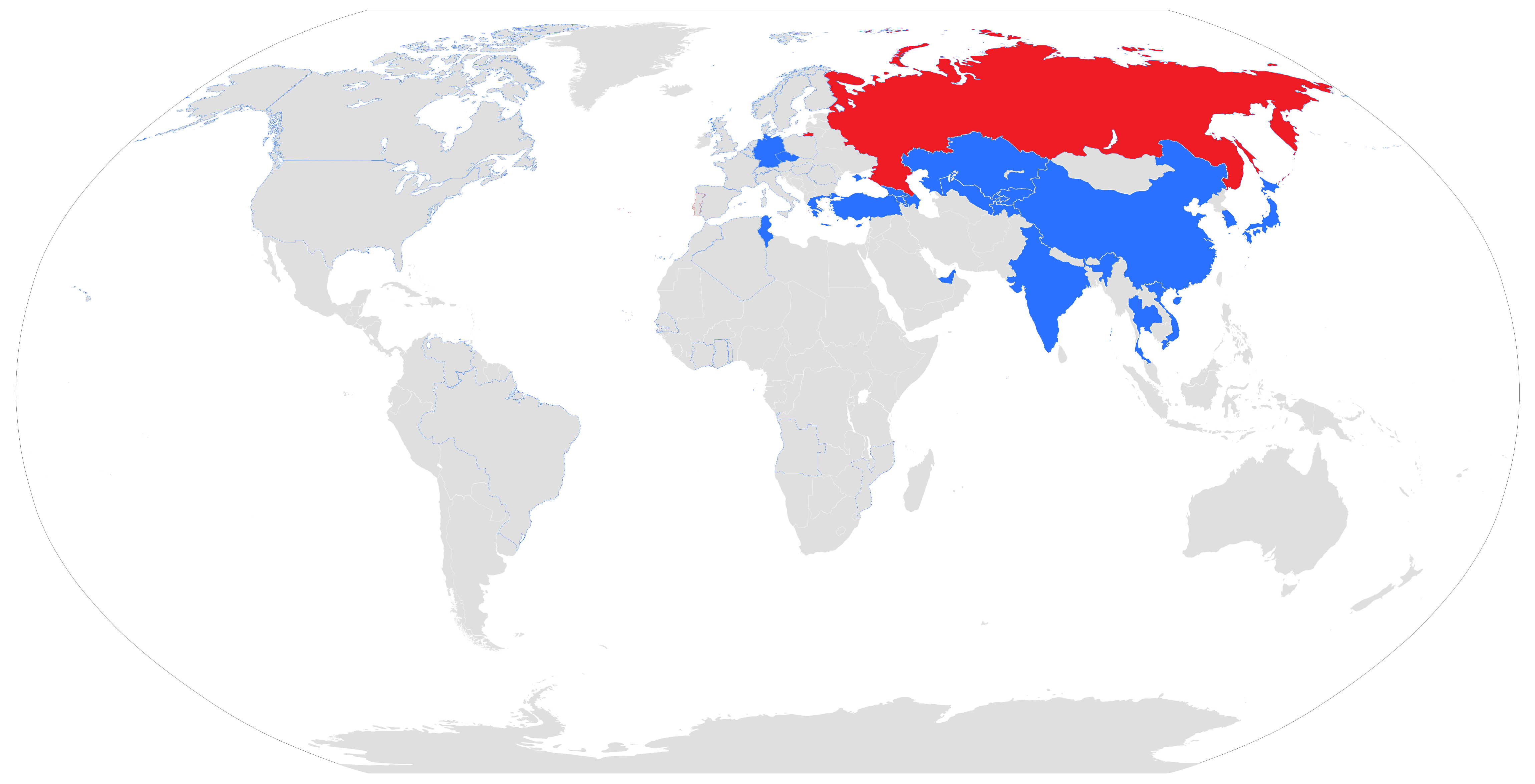 Red: Russia; Blue: Countries with flight destinations from the Novosibirsk Airport